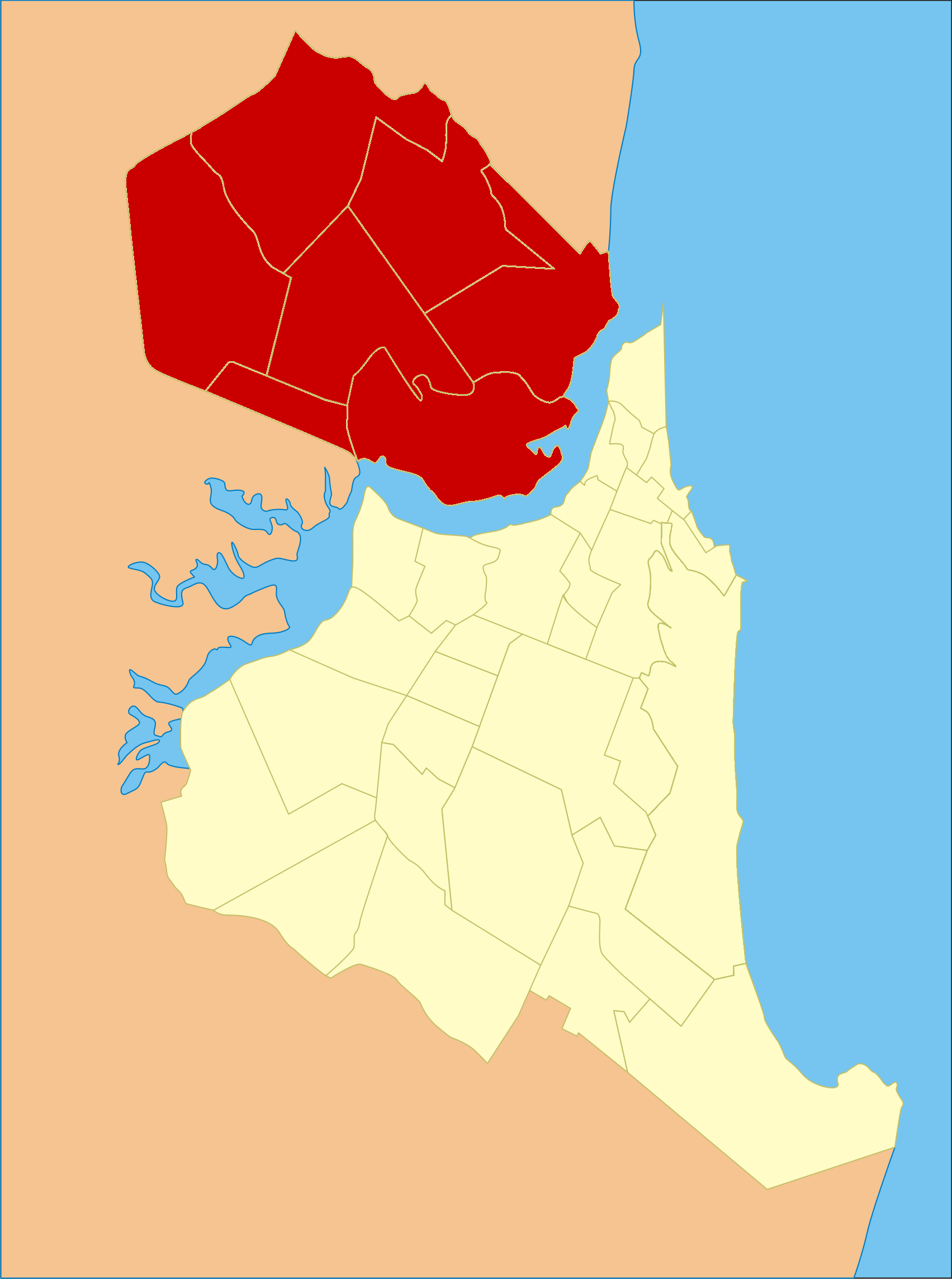 Location map of North Zone in Natal (Rio Grande do Norte), Brasil.